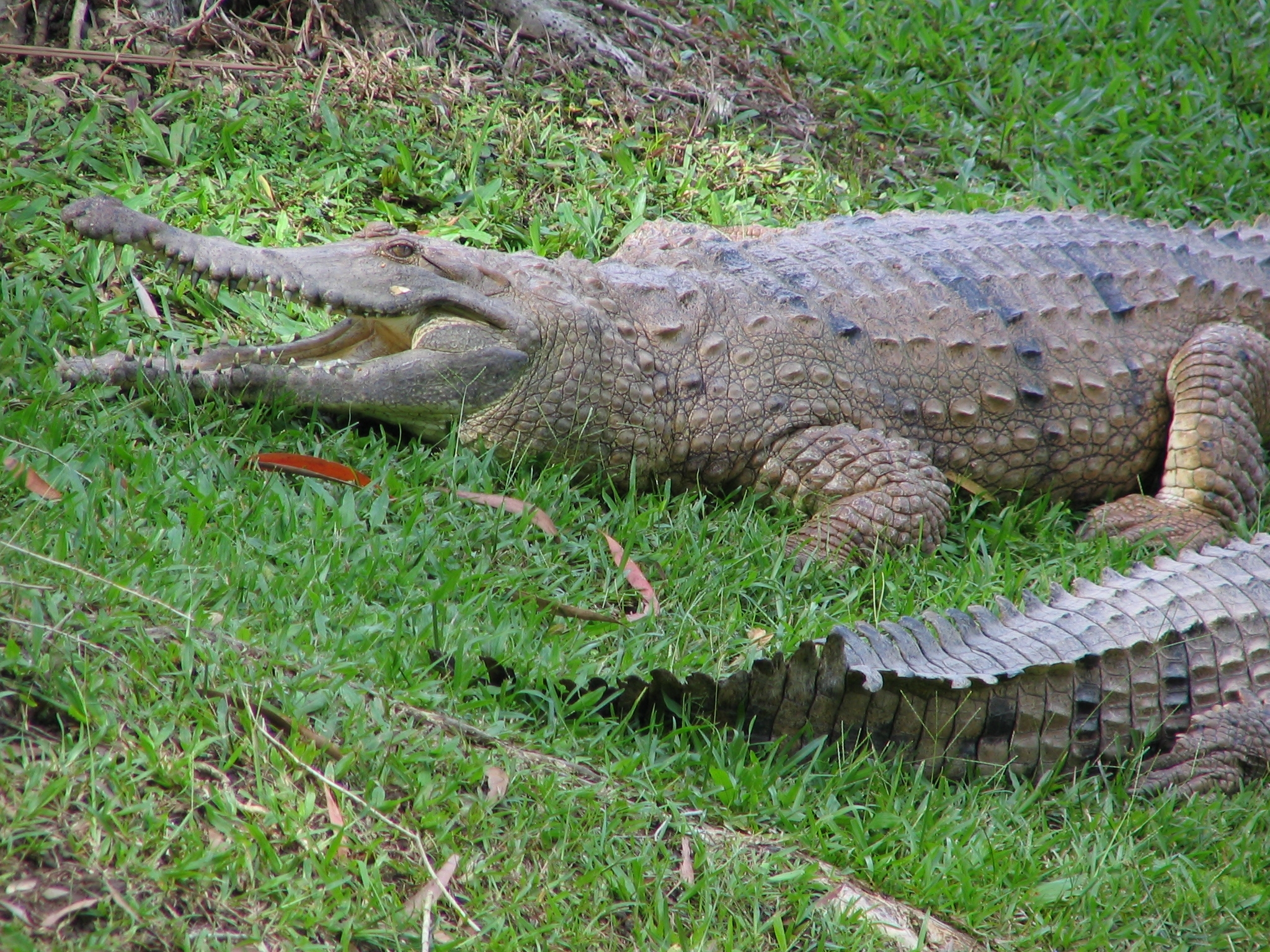 Freshwater_Crocodiles at Australia Zoo. Own photo